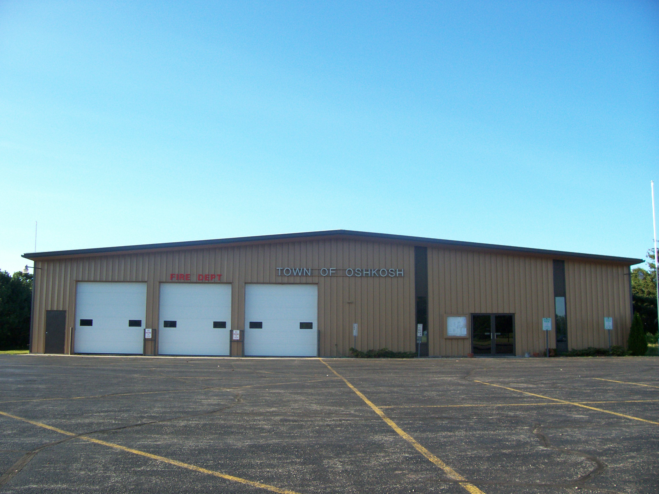 Looking north at the town hall for Oshkosh (town), Wisconsin.